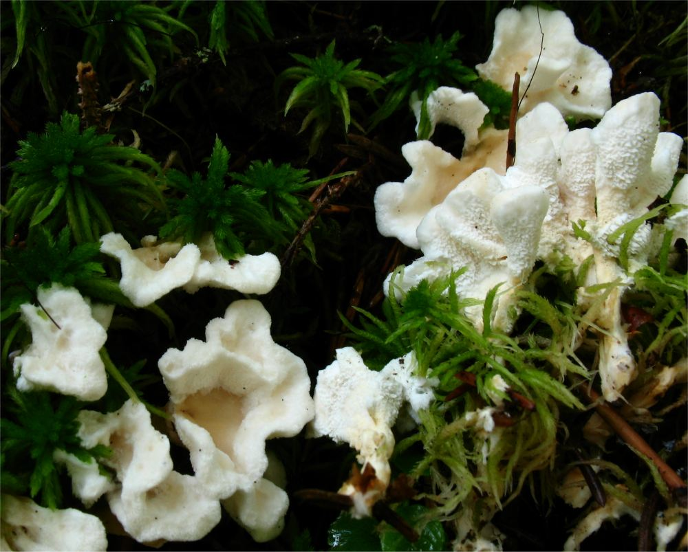 Fruit bodies of the fungus Sistotrema confluens. Photographed in Västerbotten, Sweden.